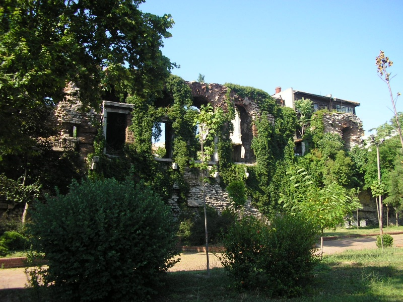 The ruins of the palace of Bucoleon